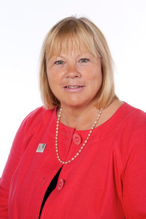 Photo